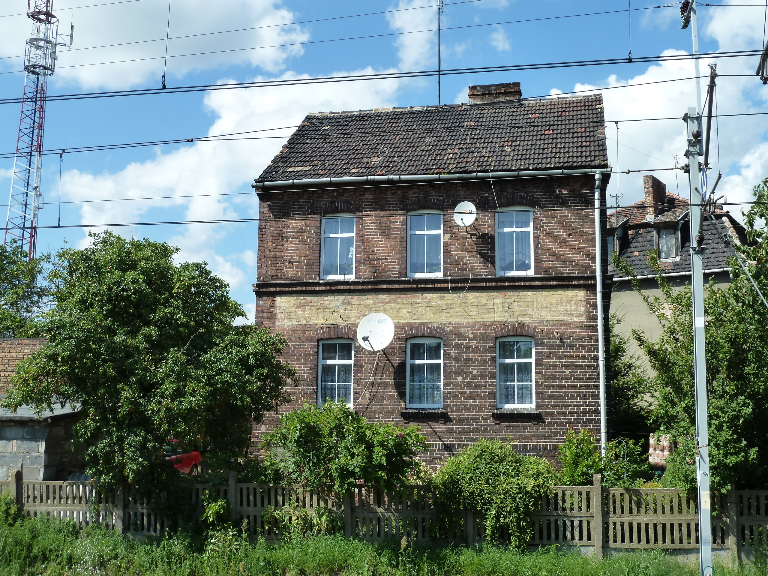 Kunowice train station, crossing keeper's house